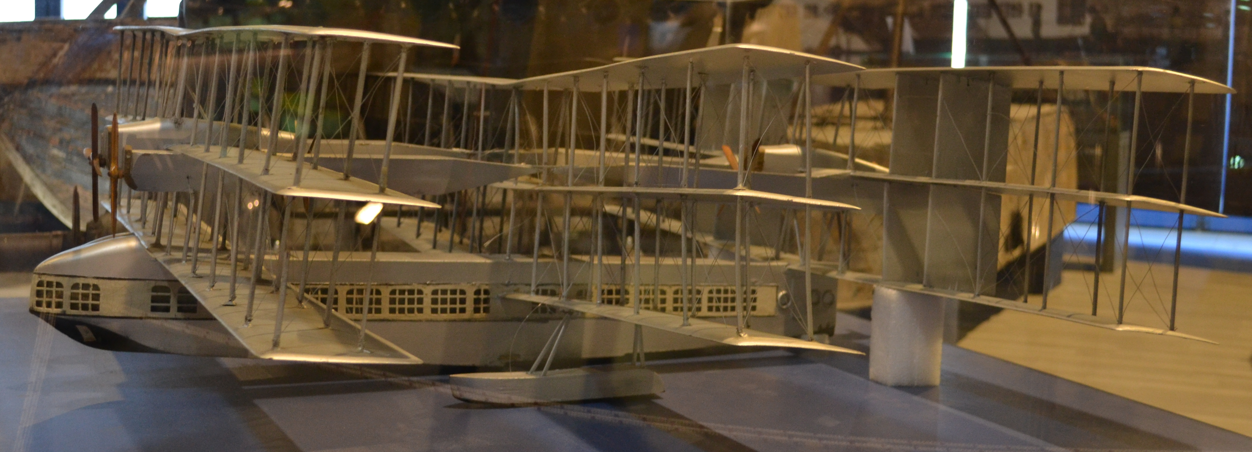 A scale model of the Caproni Ca.60 Transaereo flying boat dating back to the 1920s. Preserved in the Caproni Museum in Trento.